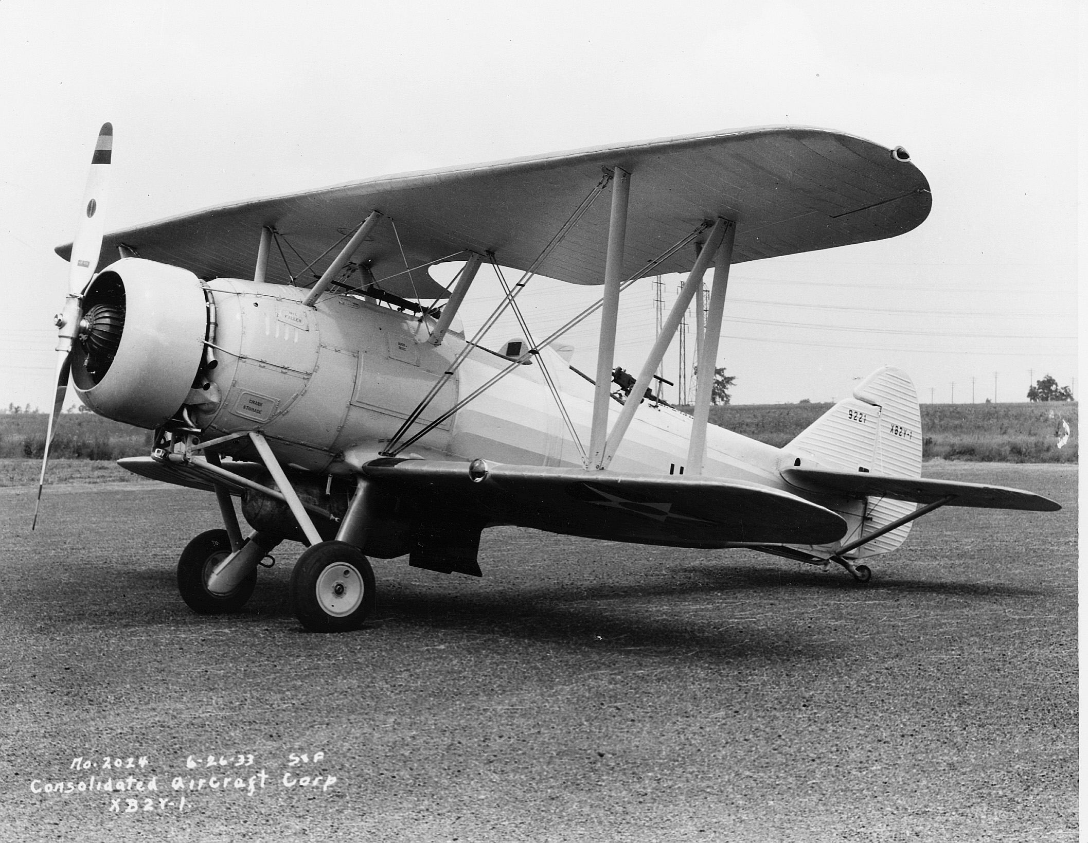 The U.S. Navy Consolidated XB2Y-1 (BuNo 9221) at the Consolidated Aircraft Corporation, Buffalo, New York (USA), 26 June 1932. The XB2Y-1 was a Consolidated answer to a Navy request for a two-seat biplane dive-bomber. However, the U.S. Navy ordered the Great Lakes XBG-1.